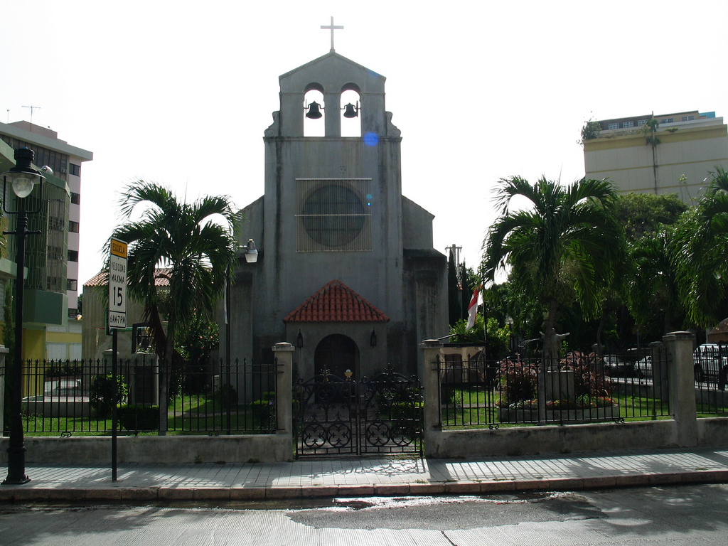 Iglesia de la Santísima Trinidad (Holy Trinity Church) — in Barrio Cuarto of Ponce, Puerto Rico.